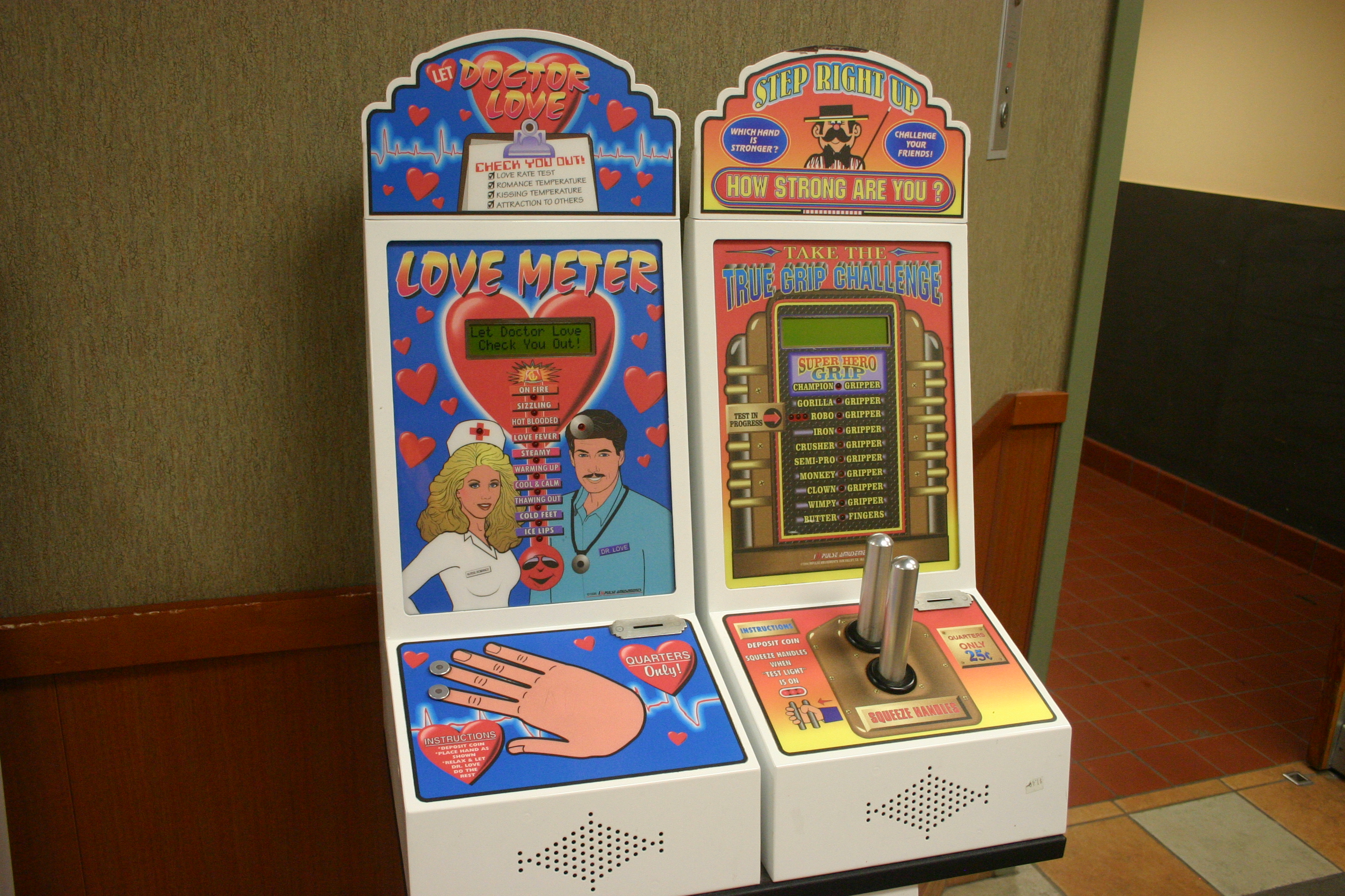 Two vending/amusement machines at Rest Stop in Framingham, MA.